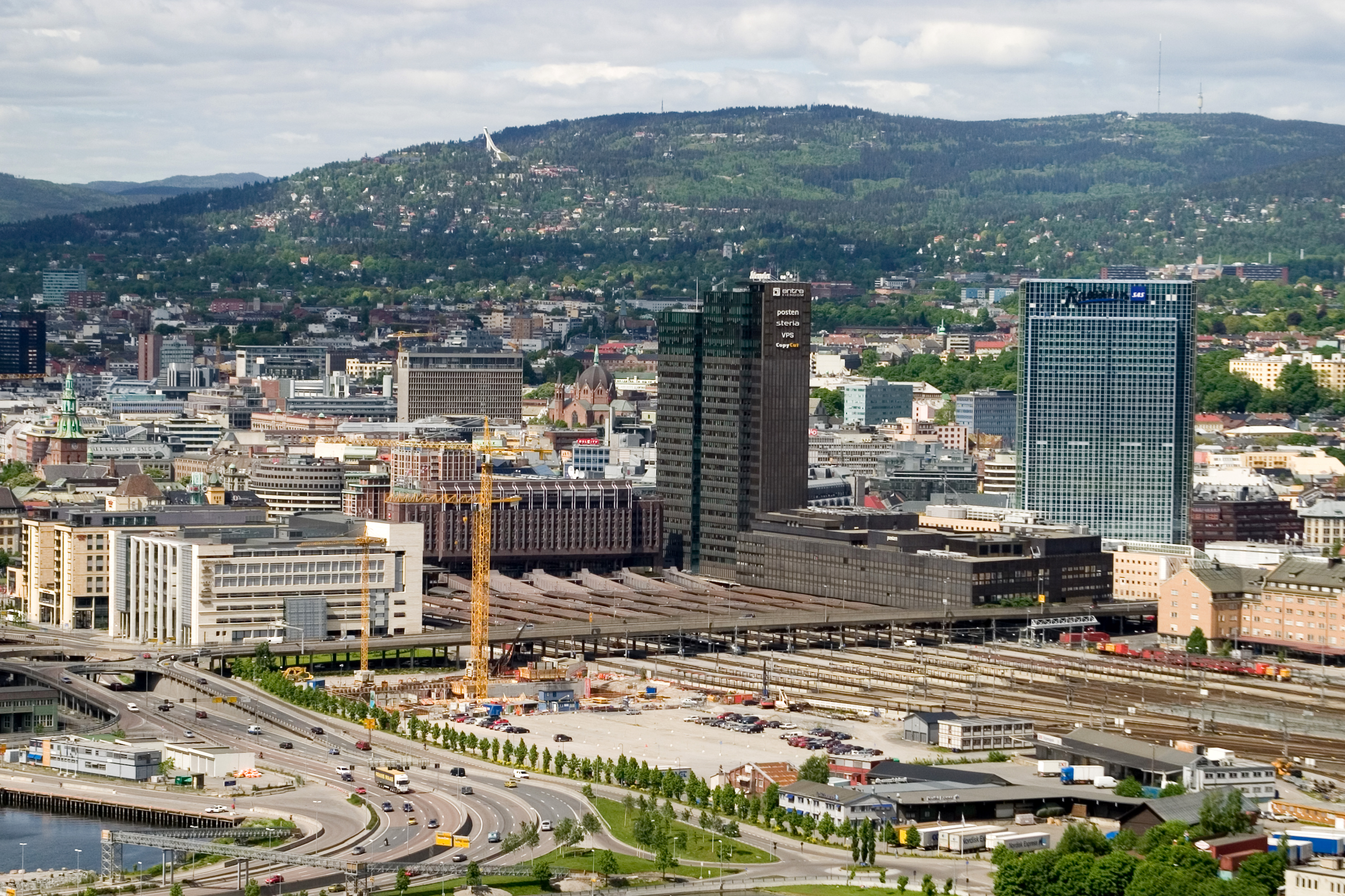 The Bjørvika area and Oslo Central Station seen from Ekeberg.